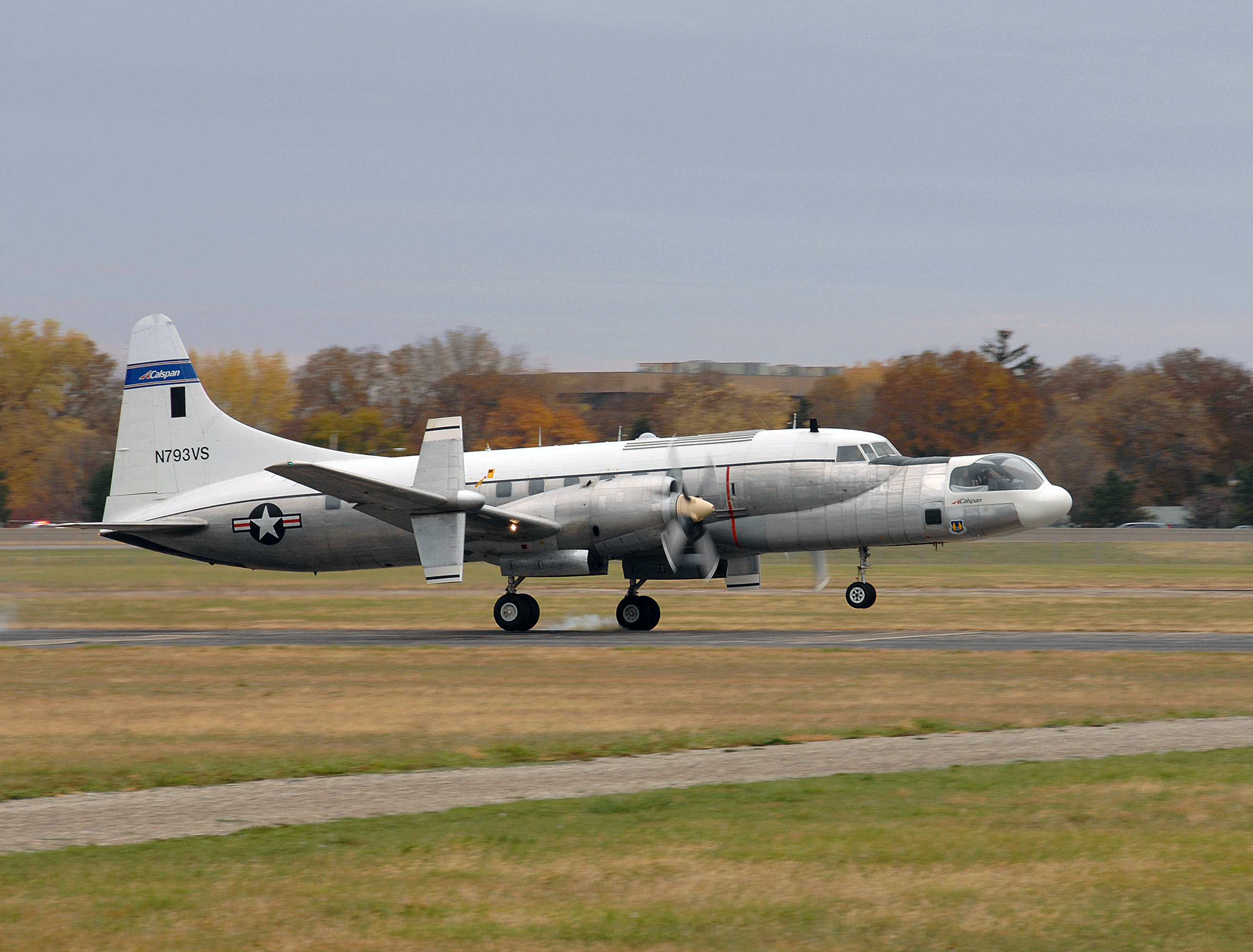 The U.S. Air Force C-131 known as the Total-In-Flight Simulator made its final flight to the National Museum of the United States Air Force at Wright-Patterson Air Force Base, Ohio, Nov. 7. The unusual aircraft flew some 2,500 research flights and contributed to the advancement of many of the flight technologies integral to today's fleet. Prior to its retirement, the TIFS, a 1955 Convair, was the oldest operating aircraft in the Air Force inventory. (U.S. Air Force photo/Ben Strasser)